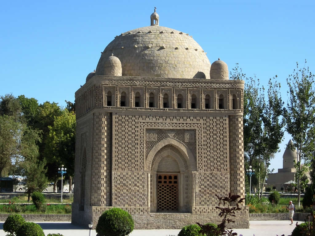 One of Uzbekistan's most ancient buildings, the Ismoil Samoniy Maqbarasi in Bukhara dates from the early 10th century.